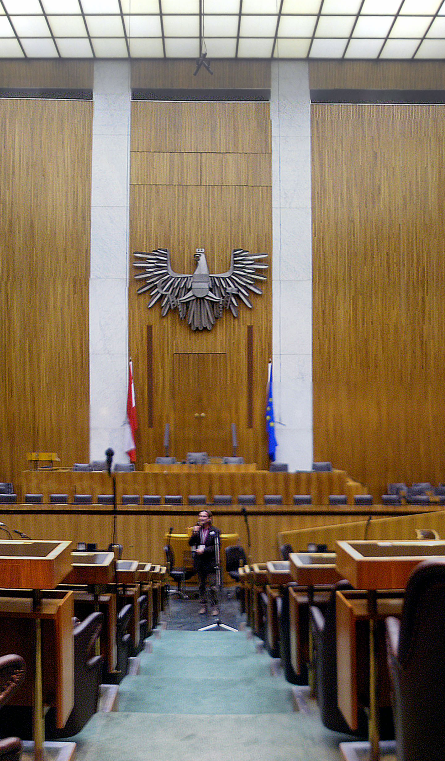 Debating Chamber of the National Council of Austria.